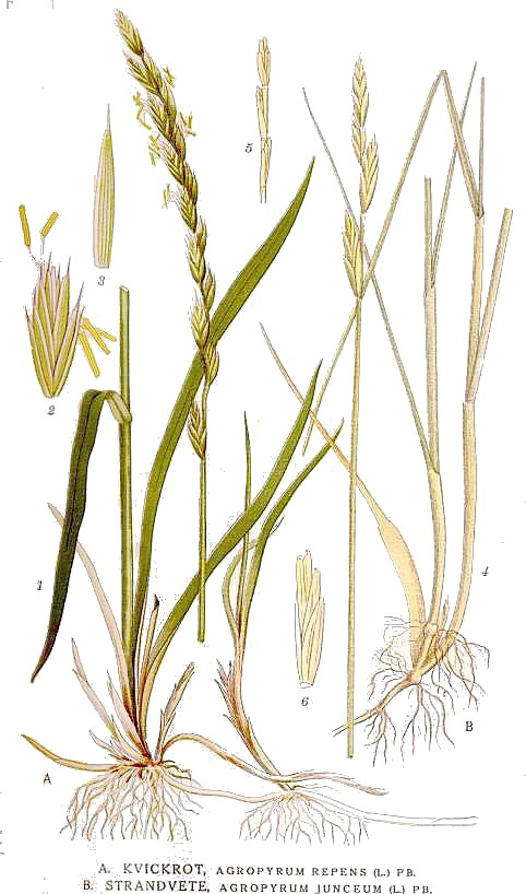 A. Elymus repens (L.) Gould s. str., syn. Agropyron repens (L.) P.Beauv. B. Elymus farctus (Viv.) Runemark ex Melderis, syn. Agropyron junceum (L.) P. Beauv. Original Description A. "Kvickrot", Agropyrum repens (L.) PB. B. "Strandvete", Agropyrum junceum (L.) PB.